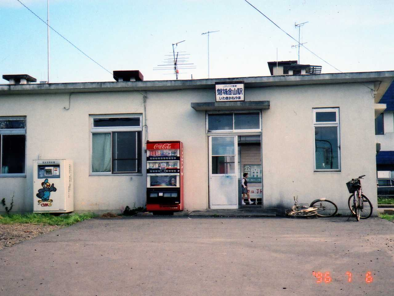 JR Bus Kanto Iwaki-Kaneyama Station